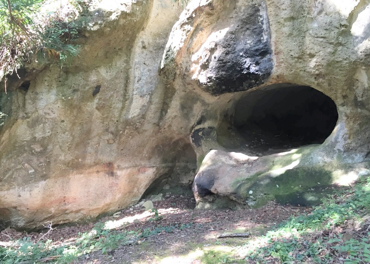 Ichinosawa Caves in Takahata, Yamagata Prefecture, Japan